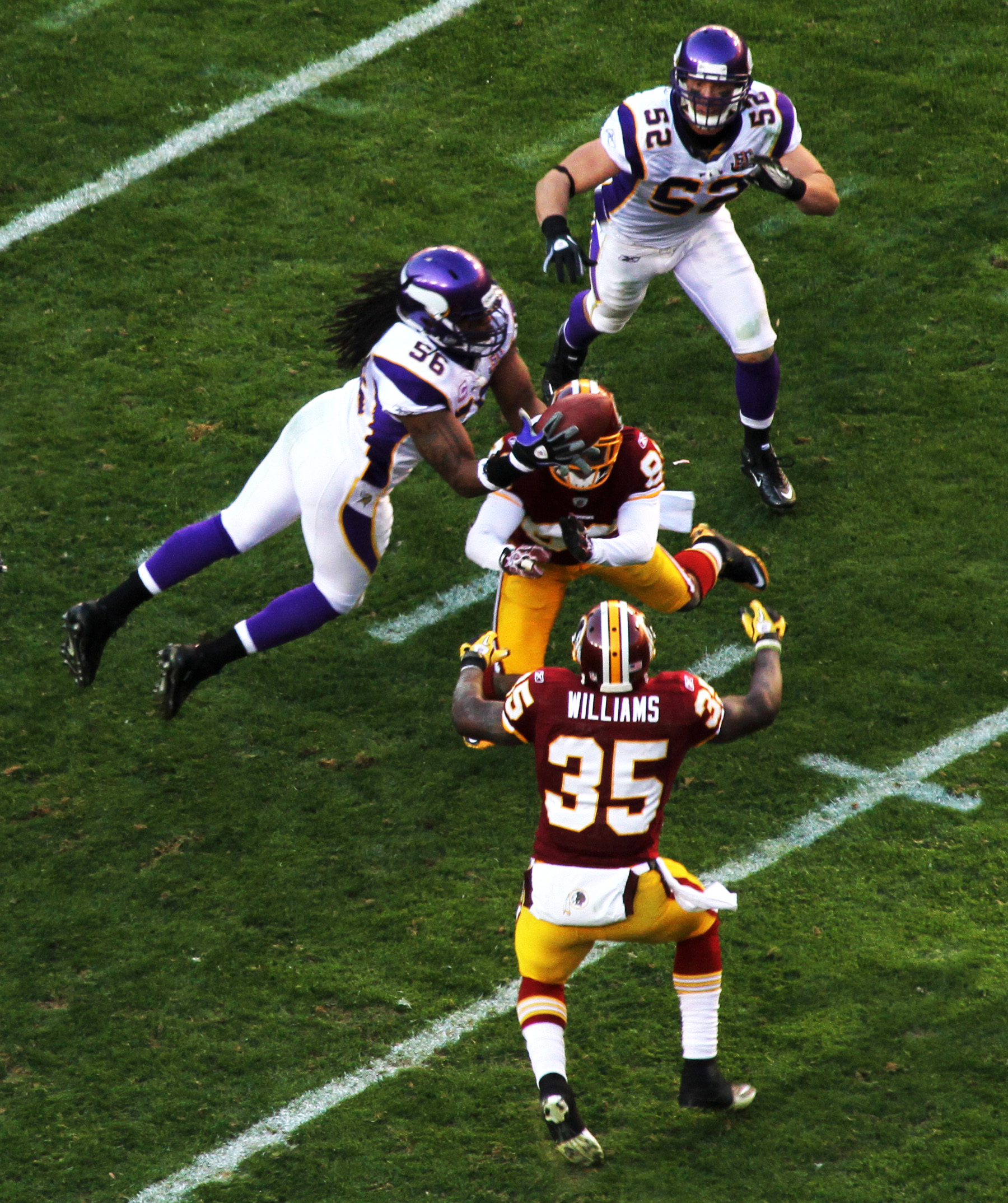 Former Minnesota Vikings linebacker E. J. Henderson while making an interception against Washington Redskins